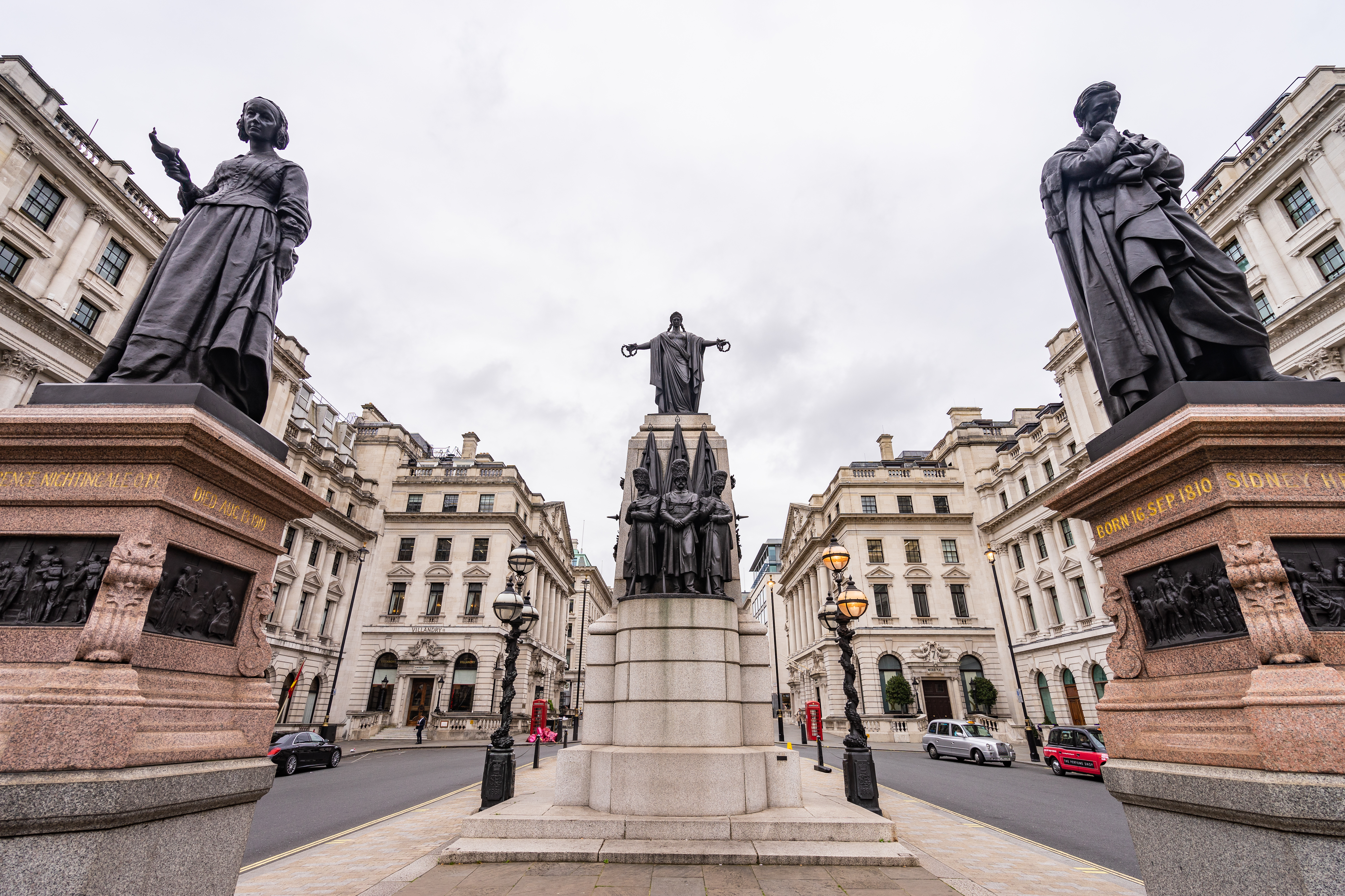 London Cityscape